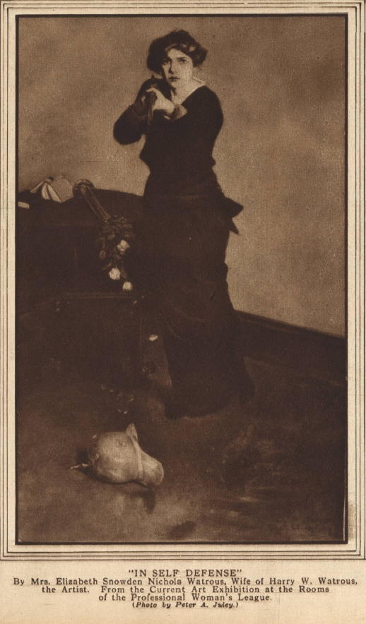 Elizabeth Snowden Nichols Watrous, In Self Defense, 1916. Reproduced in the New York Times, 23 January 1916.